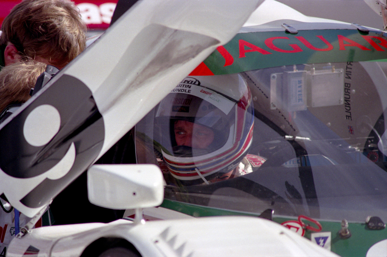 Martin Brundle at the IMSA Del Mar Grand Prix - October 1990